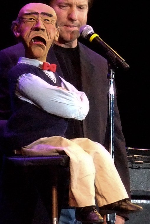 Jeff Dunham at the comedy night sponsored by Image Entertainment.